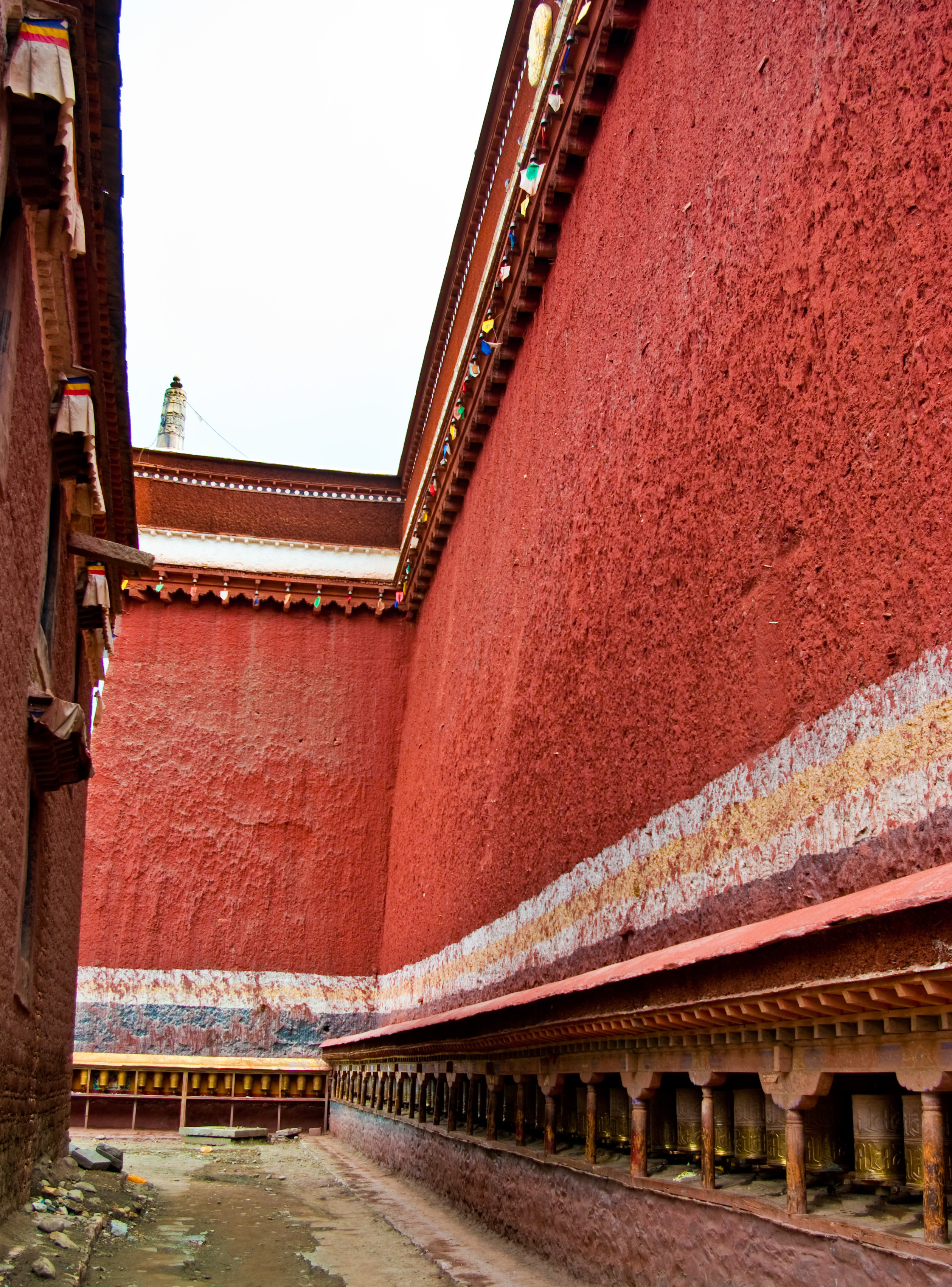 sakya monastery